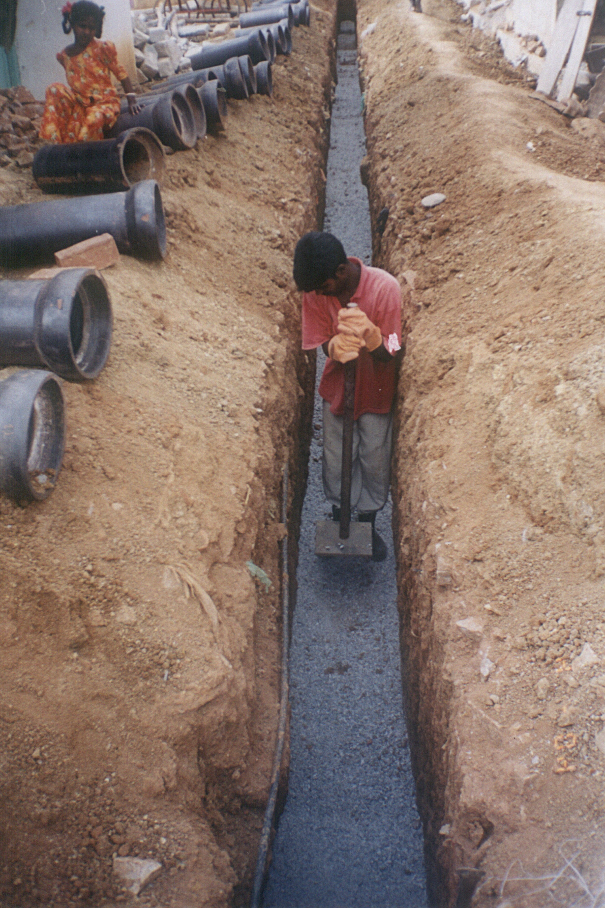 Laying sewer pipes, Chandranagar. Pilot water supply and sanitation projects supported the costs of laying the distribution networks in the settlements. to request a high resolution original.